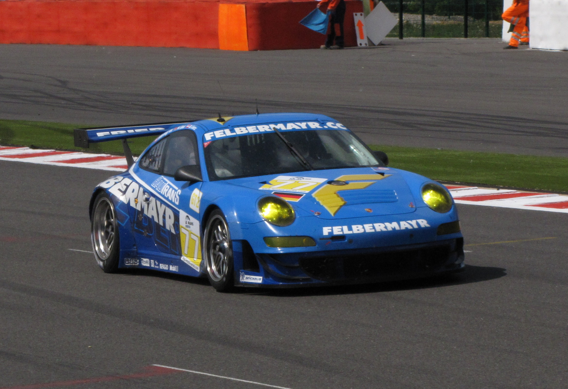 Richard Lietz at the wheel of Felbermayr-Proton's Porsche 997 GT3-RSR at 1000 km of Spa 2009.